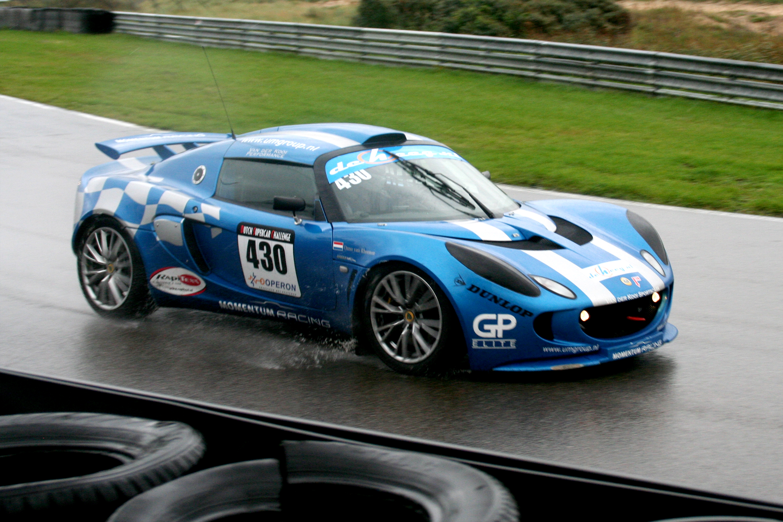 Lotus Exige racecar